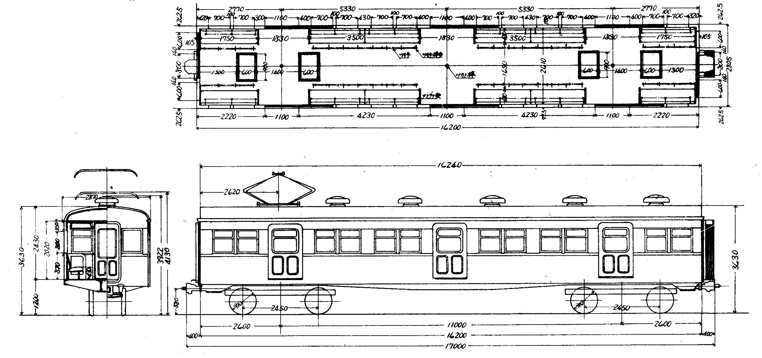 Type drawing of JNR's electric car Moha10(2nd)